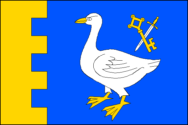 Municipal flag of Hrádek village, Znojmo District, Czech Republic.